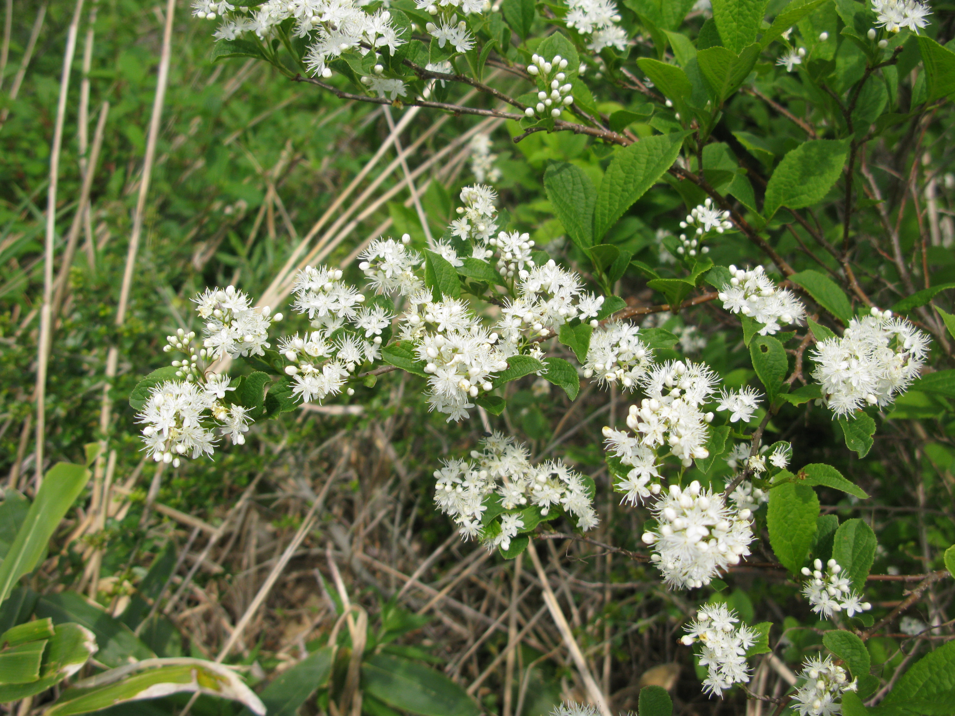 Symplocos sawafutagi, Aizu area, Fukushima pref., Japan